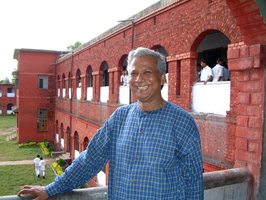 Muhammad Yunus, he passed the matriculation examination from Chittagong Collegiate School securing the 16th position among 39,000 students in East Pakistan.